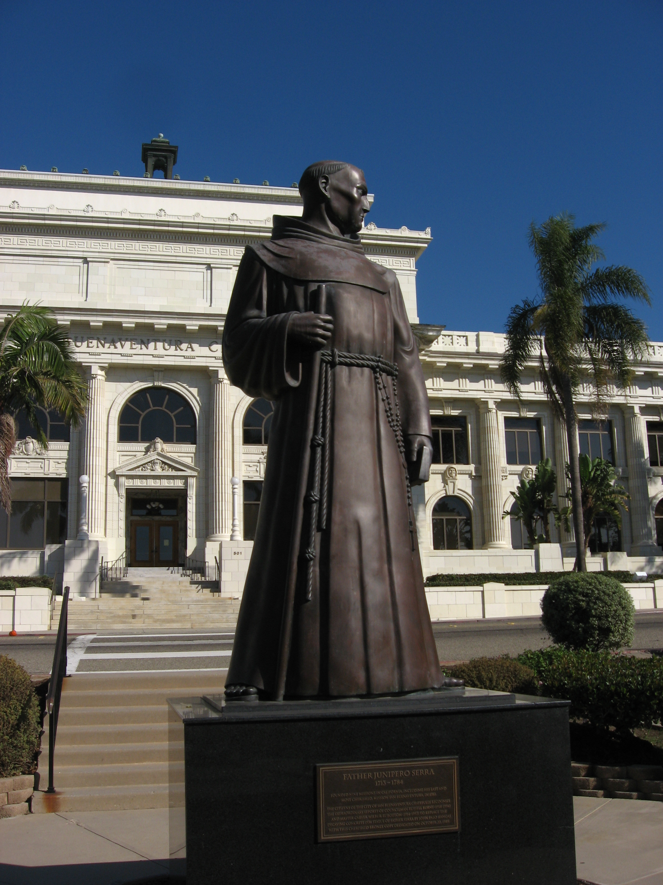 Statue of Father Junípero Serra. Ventura, California. Article about the statue: [1]